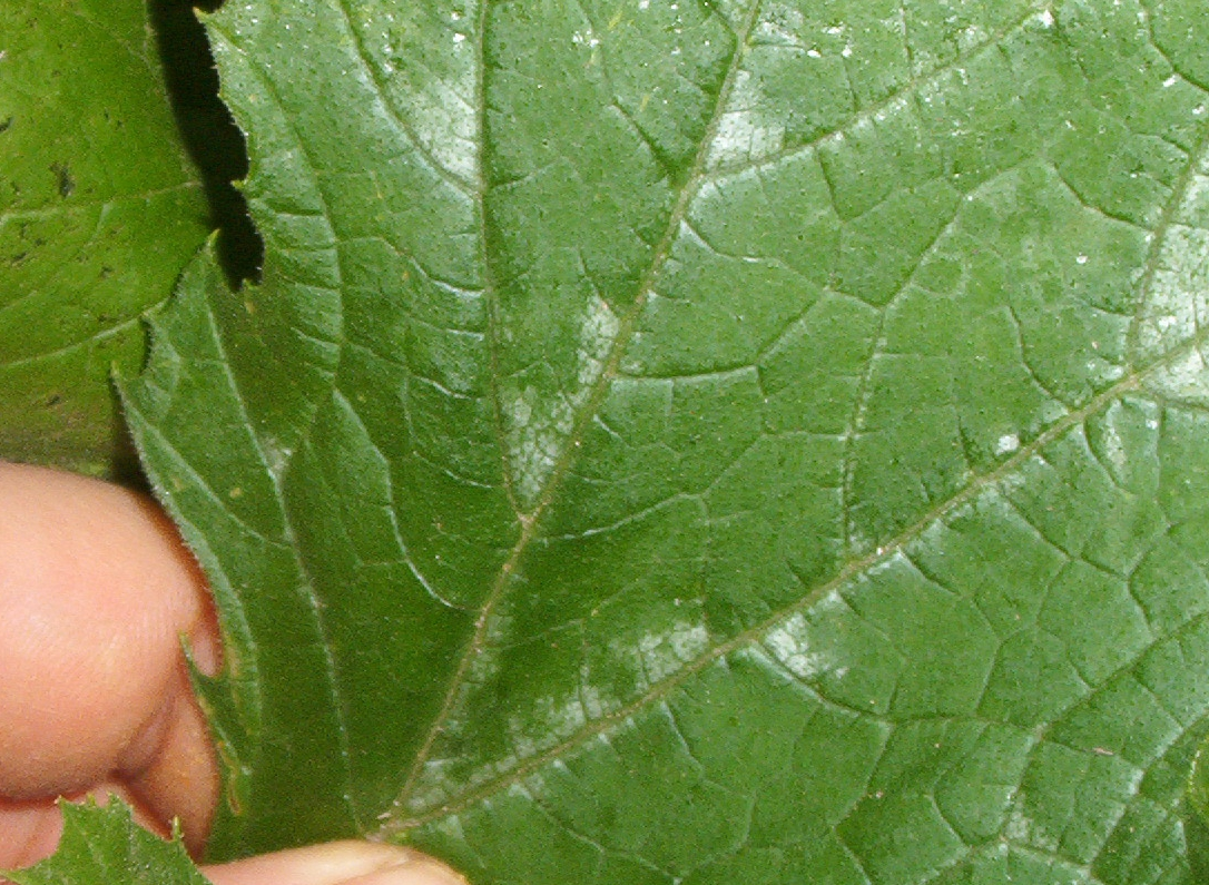 Cucurbita pepo 'Zucchini Grey' (semillería Florensa) or "Zapallito alargado de Génova" (semillería Florensa) - "mottled leaf".